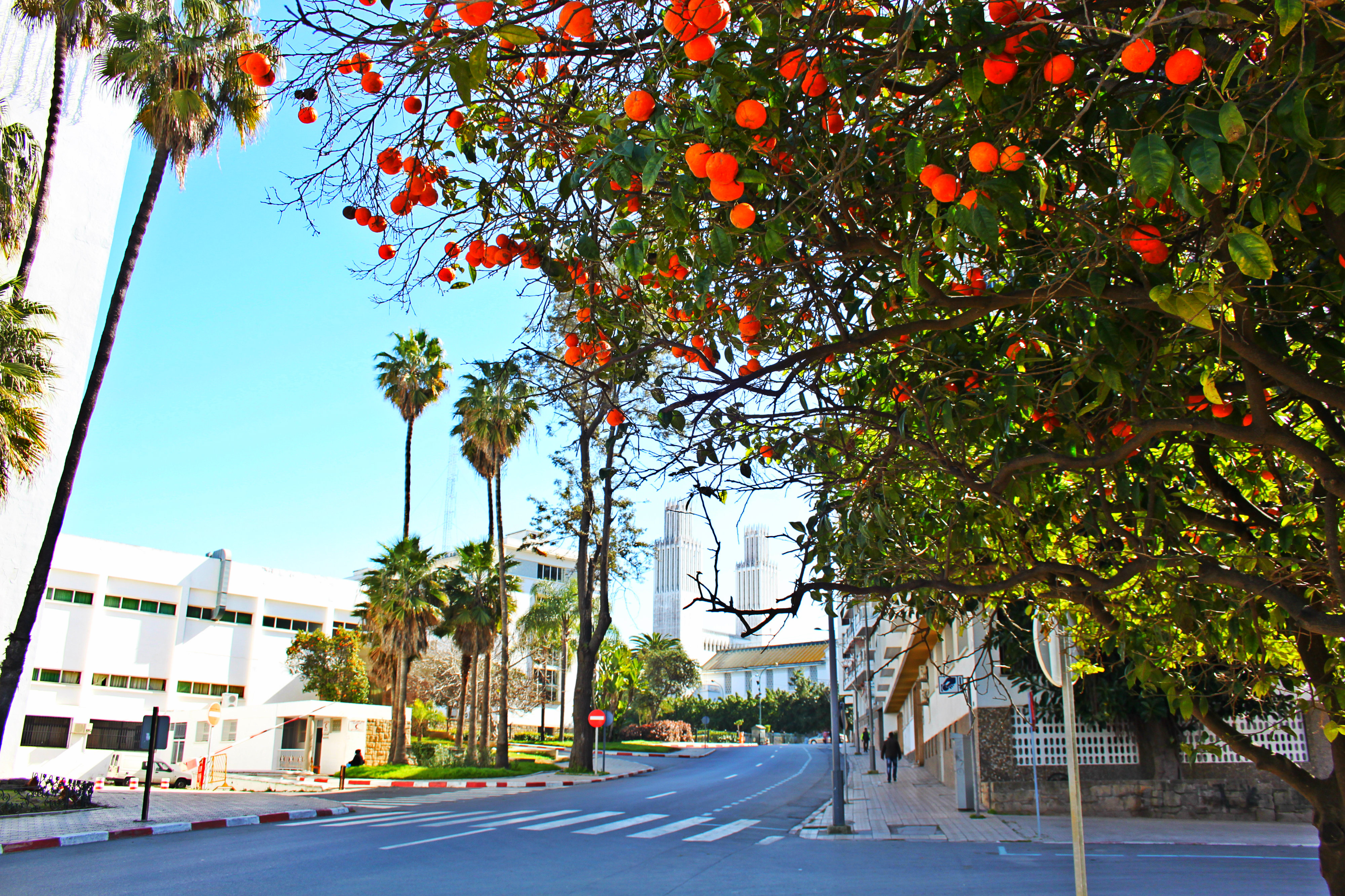 Saint pierre church